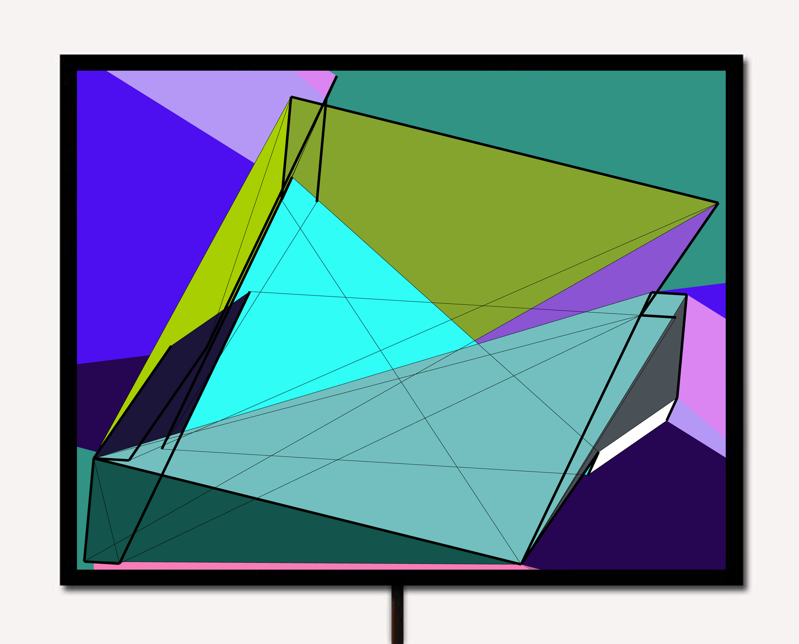 Work of Art "P-777_D" by Manfred Mohr (2002/04). LCD screen and PC. 35cm x 45cm x 7cm. Owned by Collection ZKM, Germany